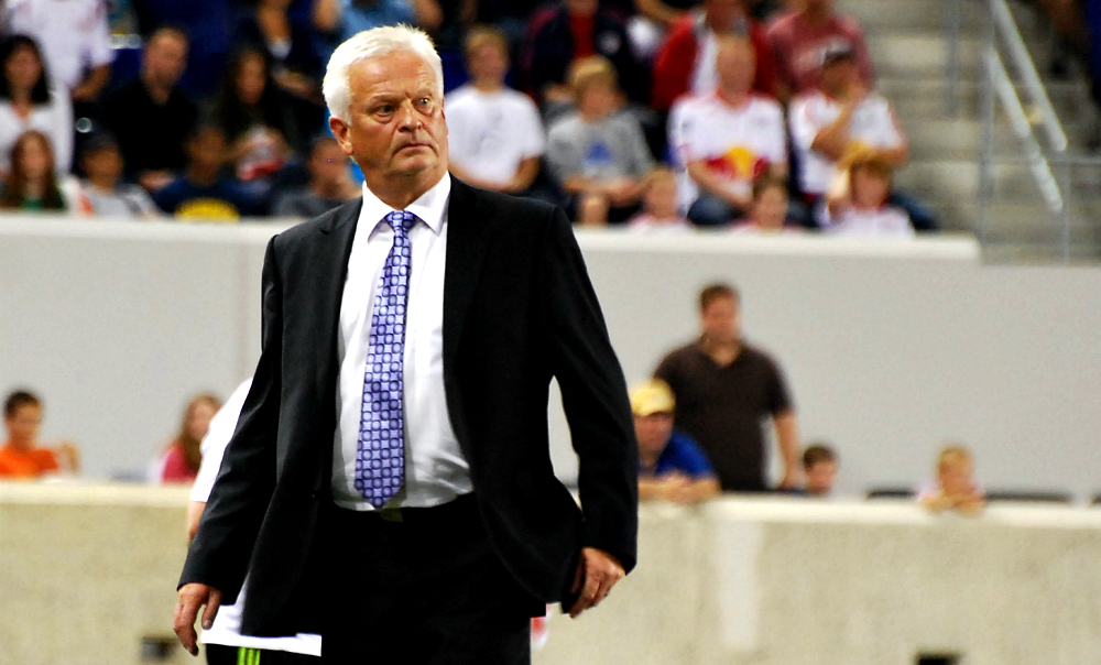 New York Red Bulls head coach Hans Backe during the 2-0 victory over the Portal Timbers on Saturday, September 24, 2011 in front of 25,000 spectators at Red Bull Arena in Harrison, New Jersey.